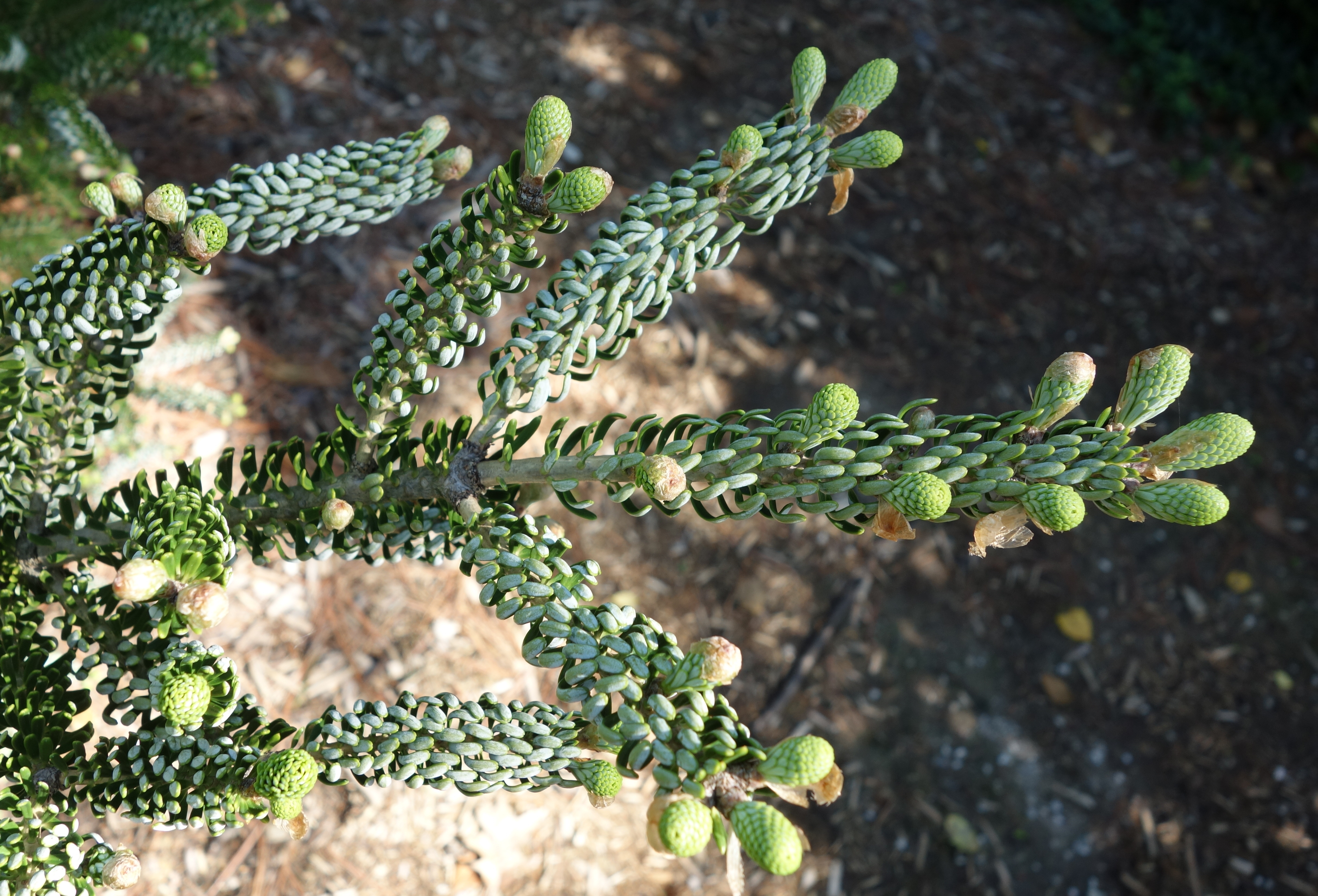 Botanical specimen in the Stanley M. Rowe Arboretum, Indian Hill, Ohio, USA.